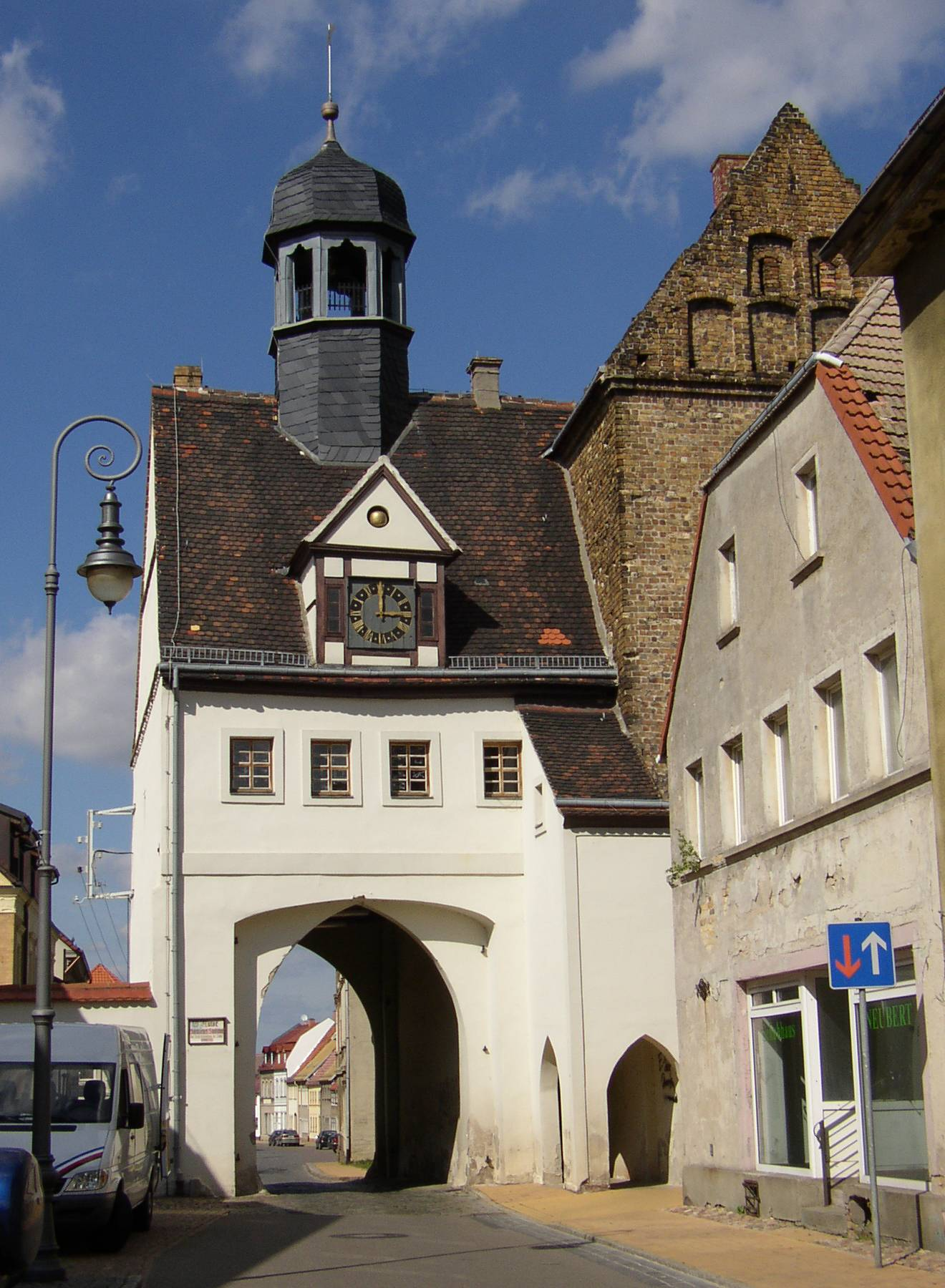 Town gate in Bad Schmiedeberg in Saxony-Anhalt, Germany